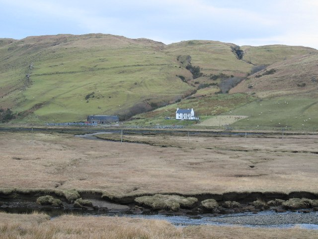 Salt Marsh at Drynoch. At the head of Loch Harport. Looking north.